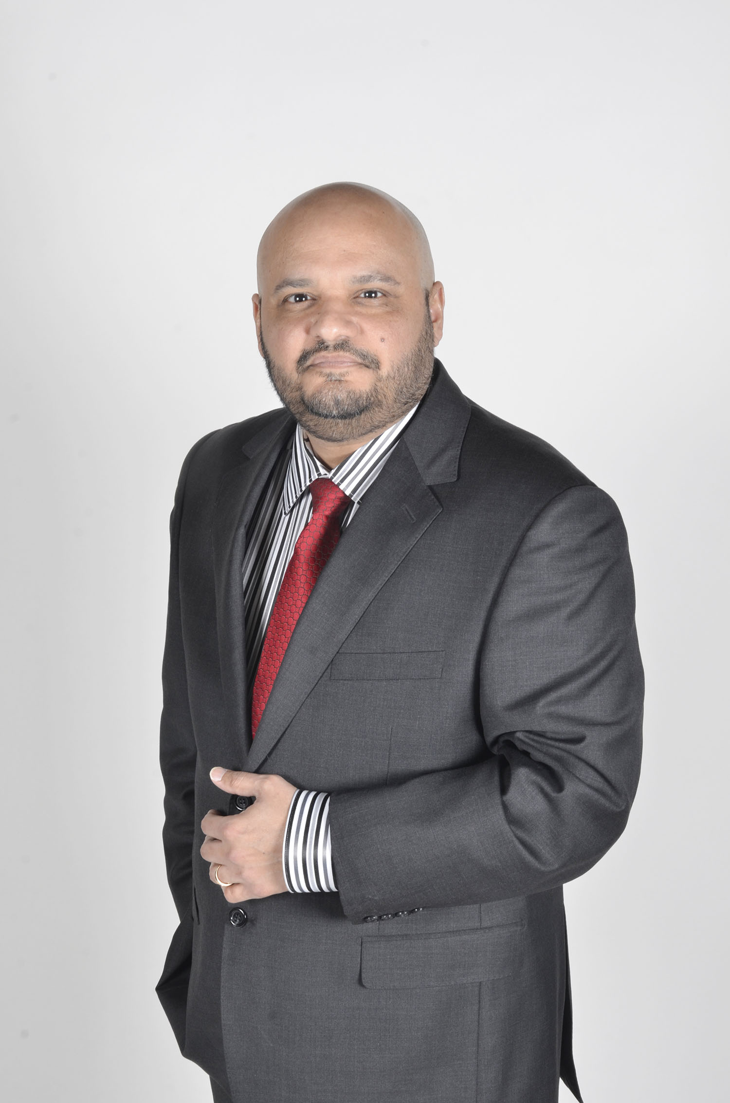 taken by company photographer